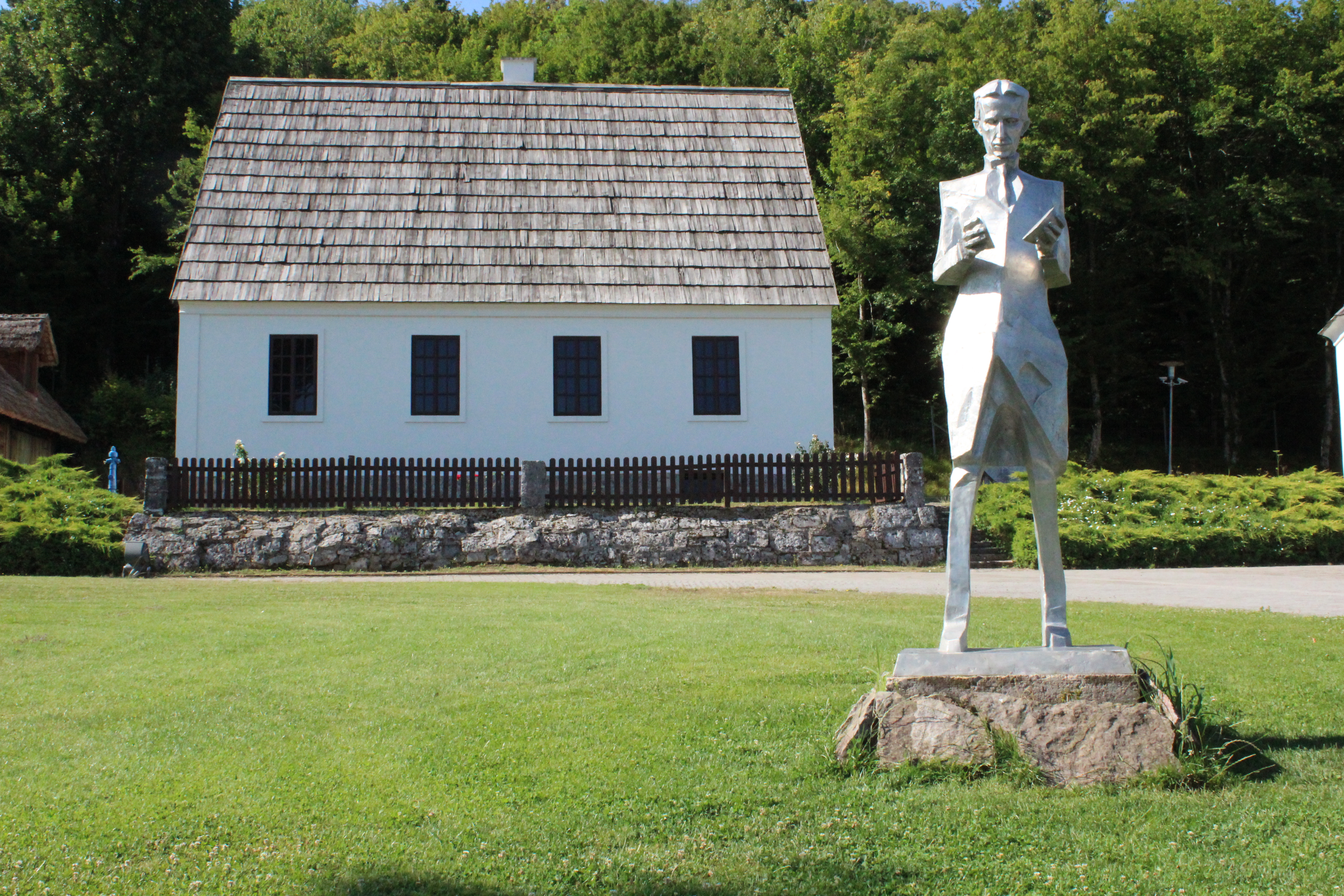 Statue of Tesla in Nikola Tesla Memorial Center (Smiljan, Croatia). Created by Mile Blažević, 2006. In the background rebuilt birth house of Tesla.